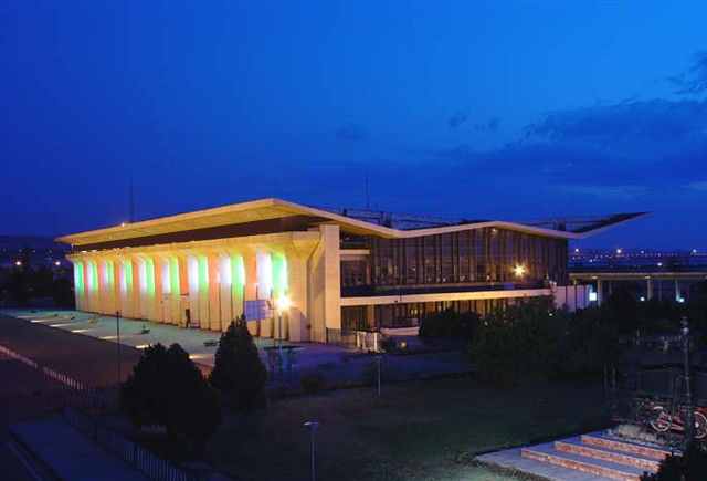 Tabriz Rail Station